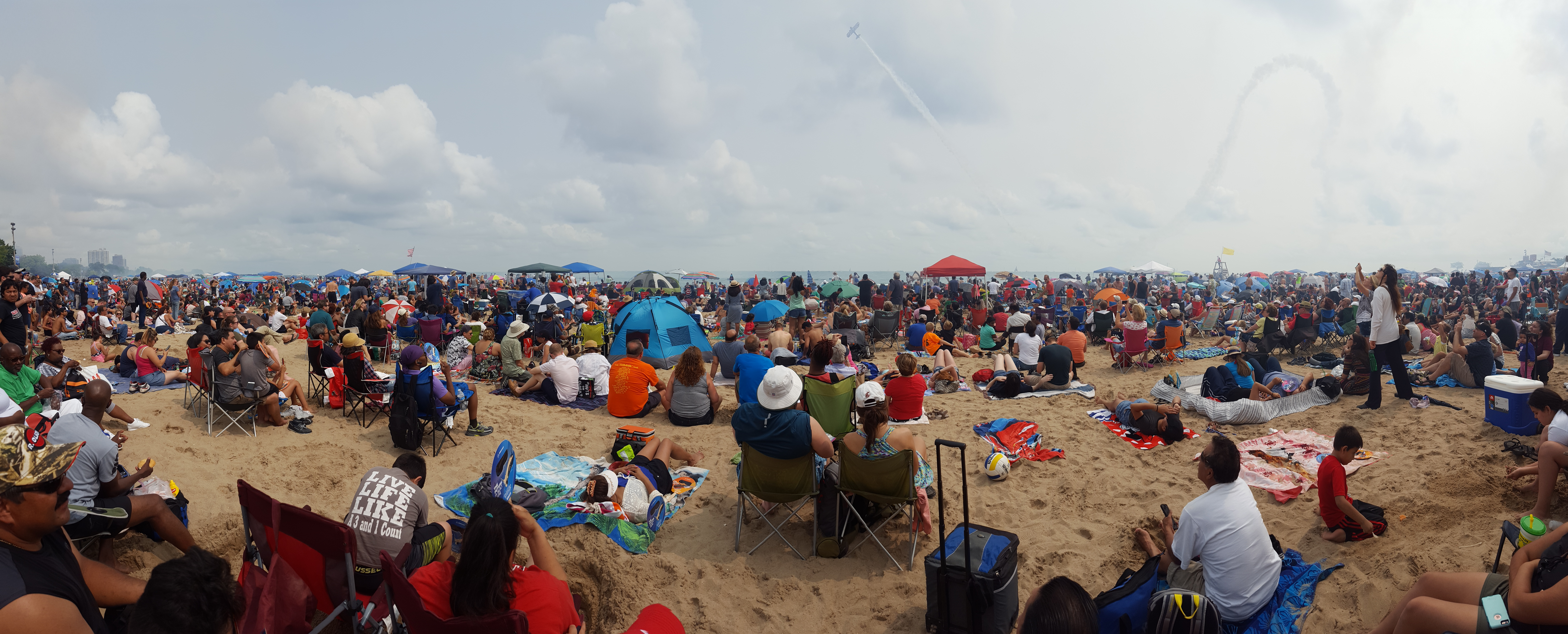 A photo during Chicago Air & Water Show from North Avenue Beach. Taken on Saturday, Aug. 18, 2018.